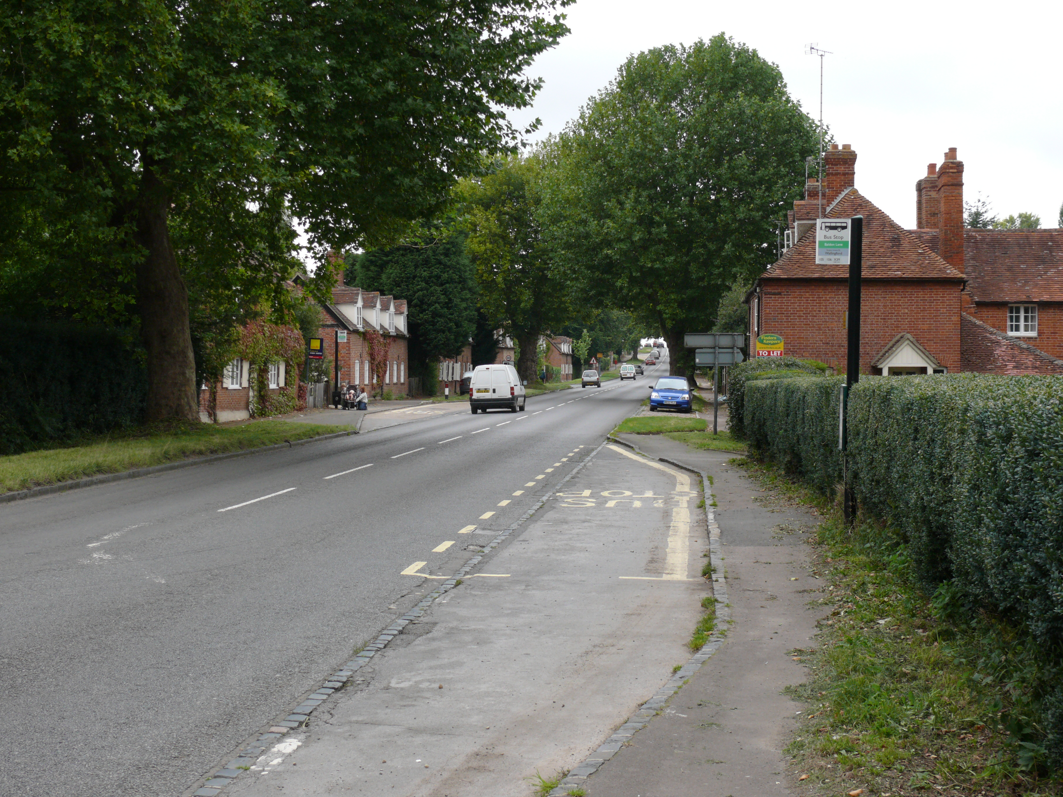 Looking northwest up the main road of Nuneham Courtenay from the end of the village